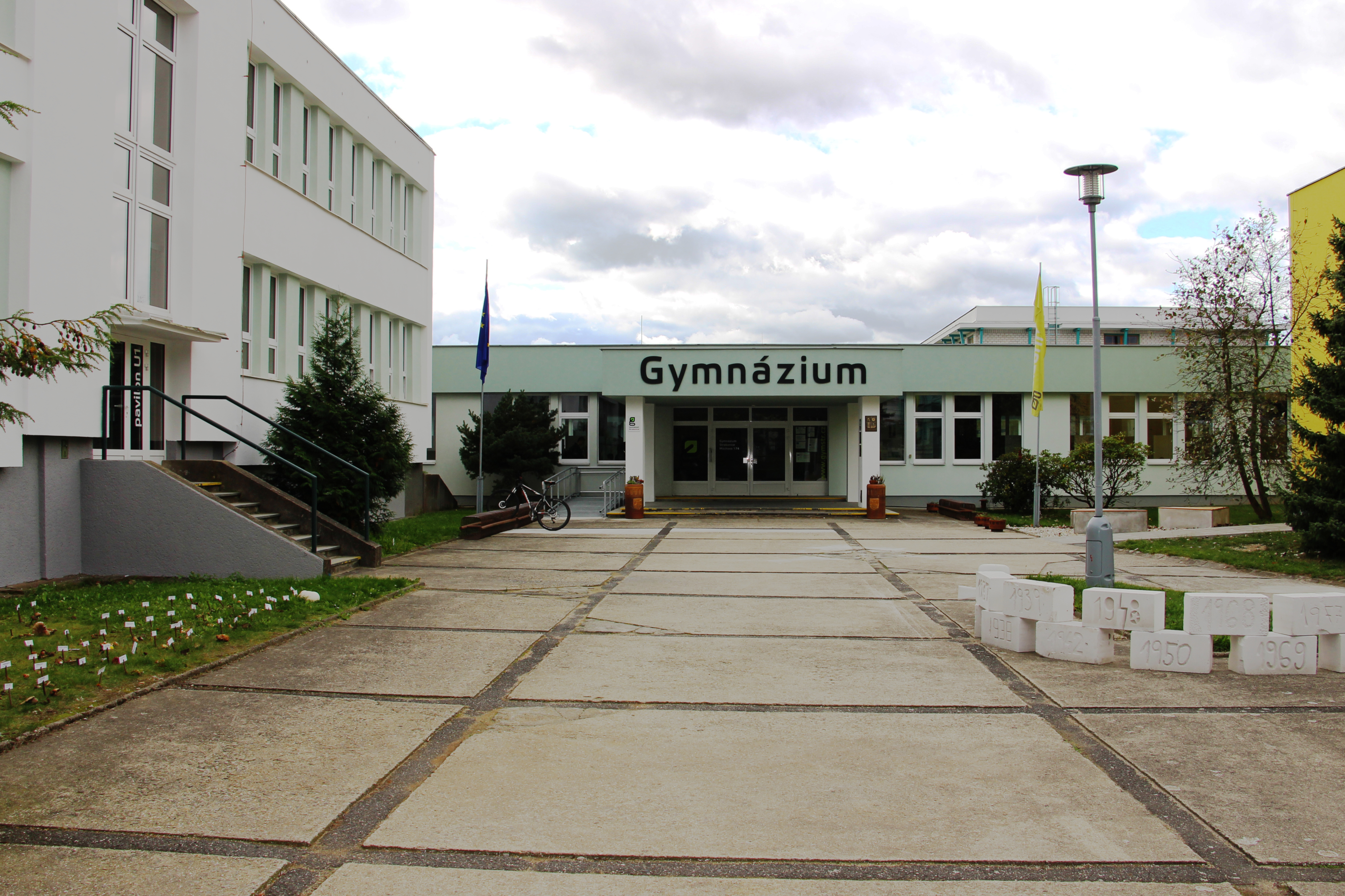 Main entry into the school.